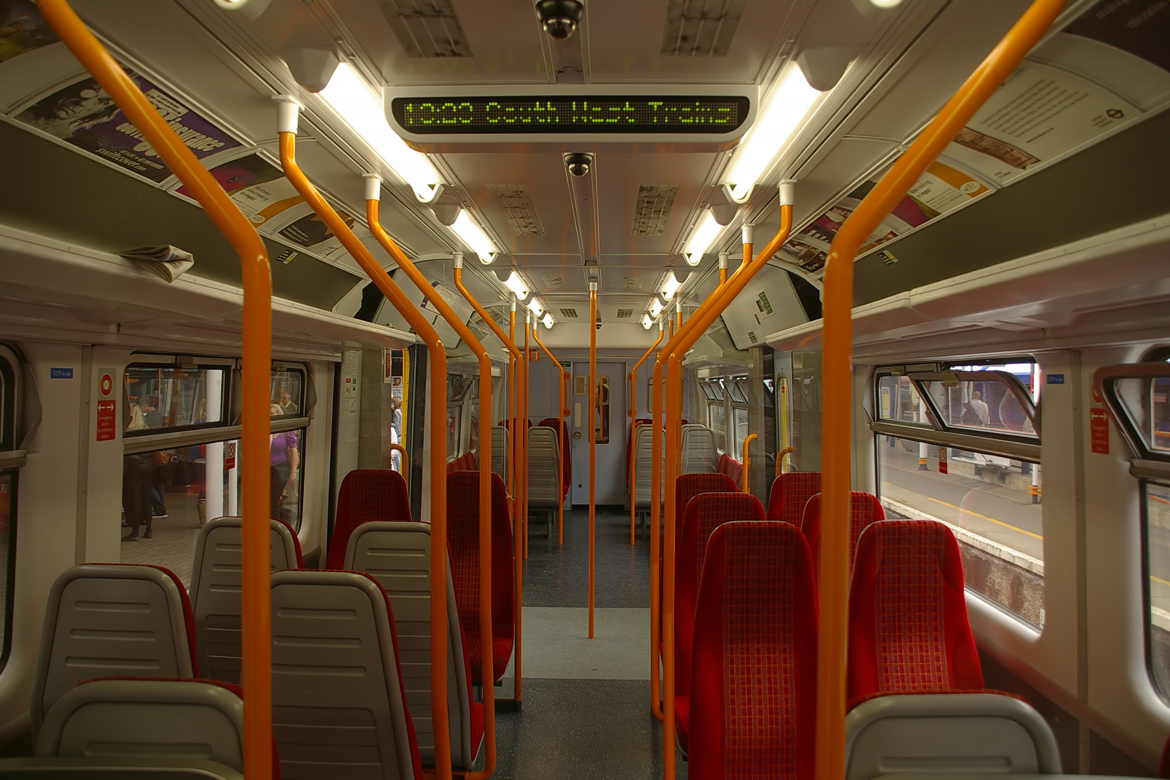 Interior of 455863 at Guildford railway station